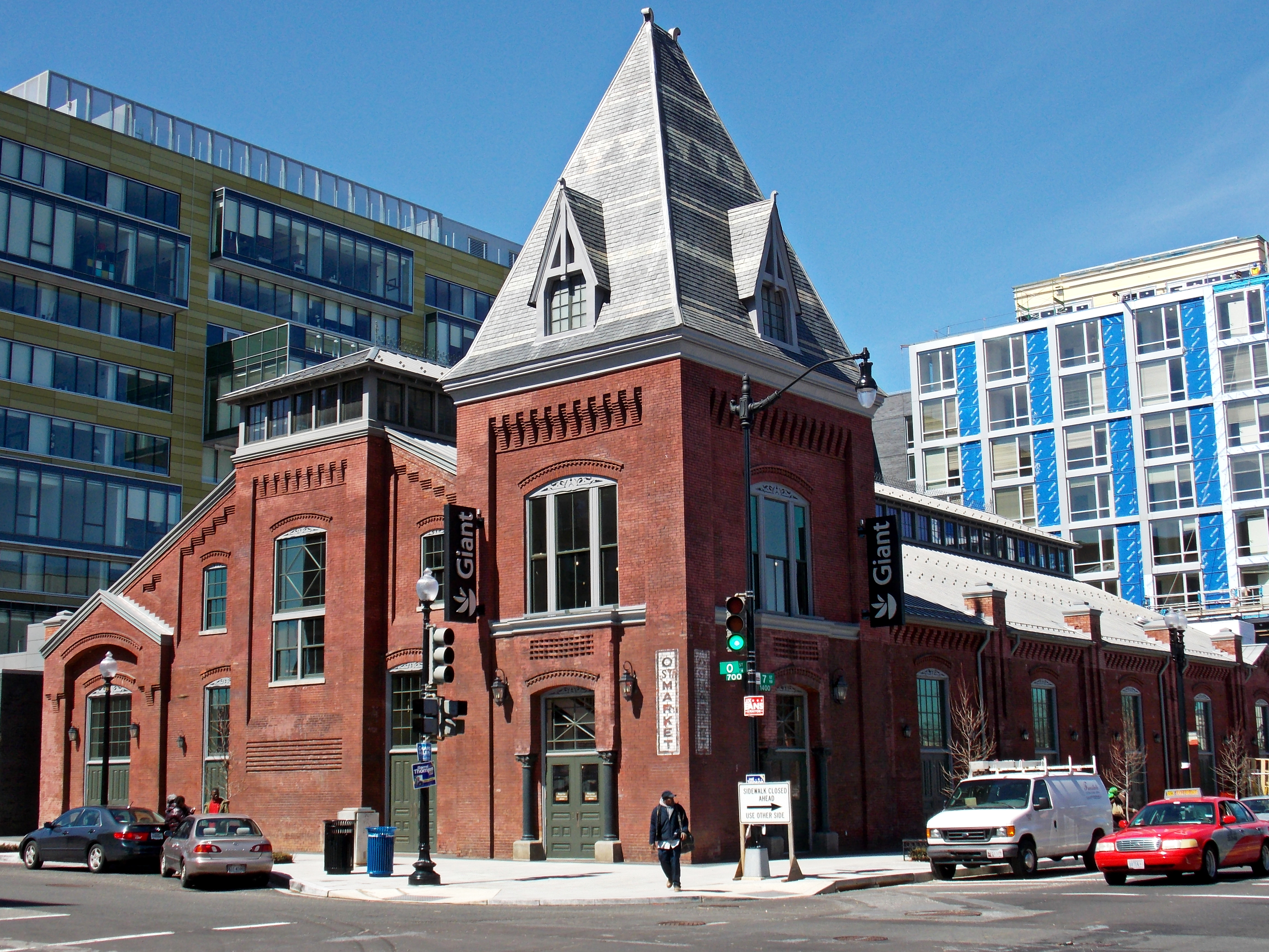 O Street Market in Northwest Washington, D.C. is listed on the National Register of Historic Places.